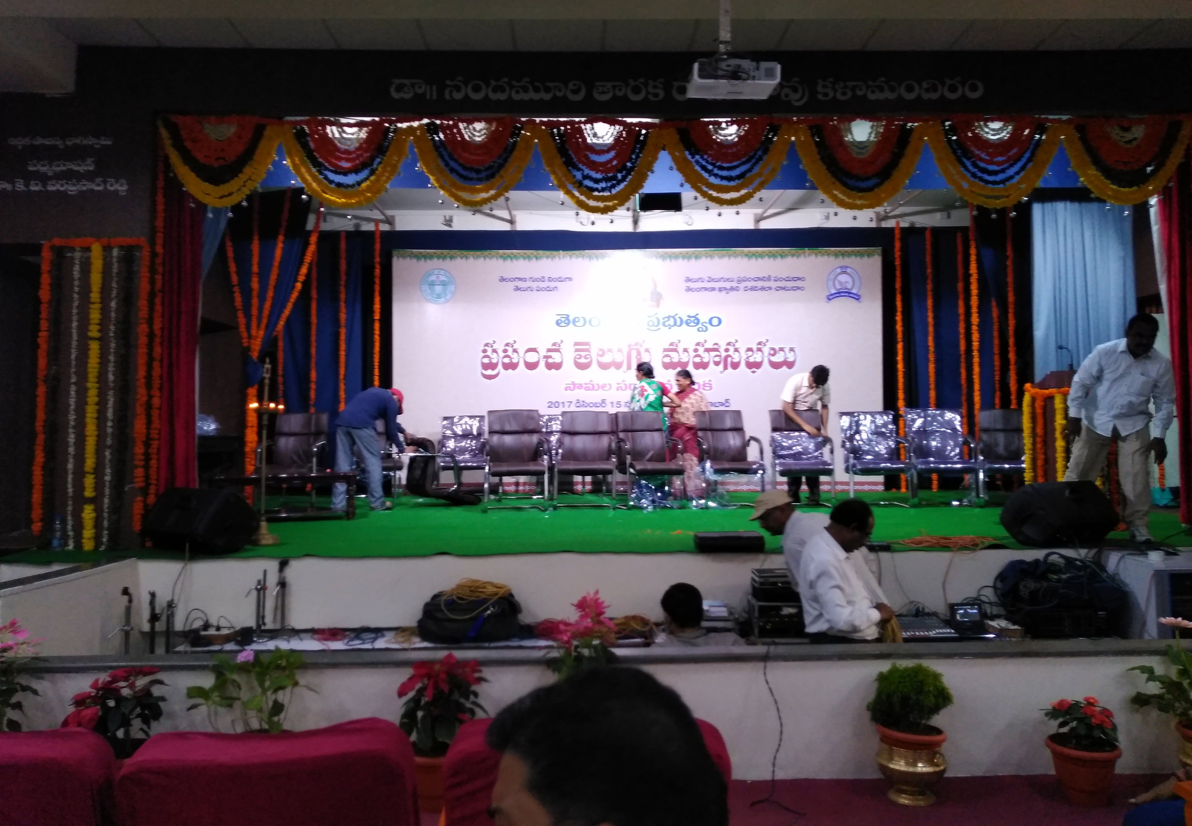 తెలుగు ప్రపంచ మహాసభల వద్ద దృశ్యాలు,వ్యక్తులు,సమావేశాలు